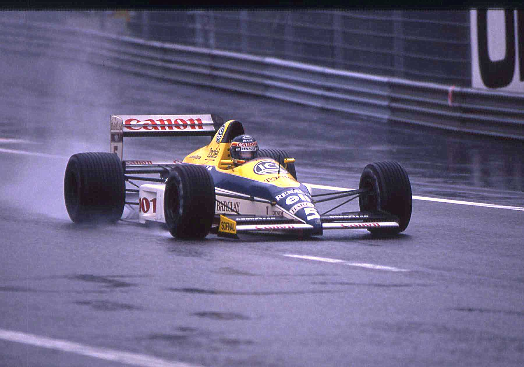 Thierry Boutsen Williams-Renault - scan Diapo argentique